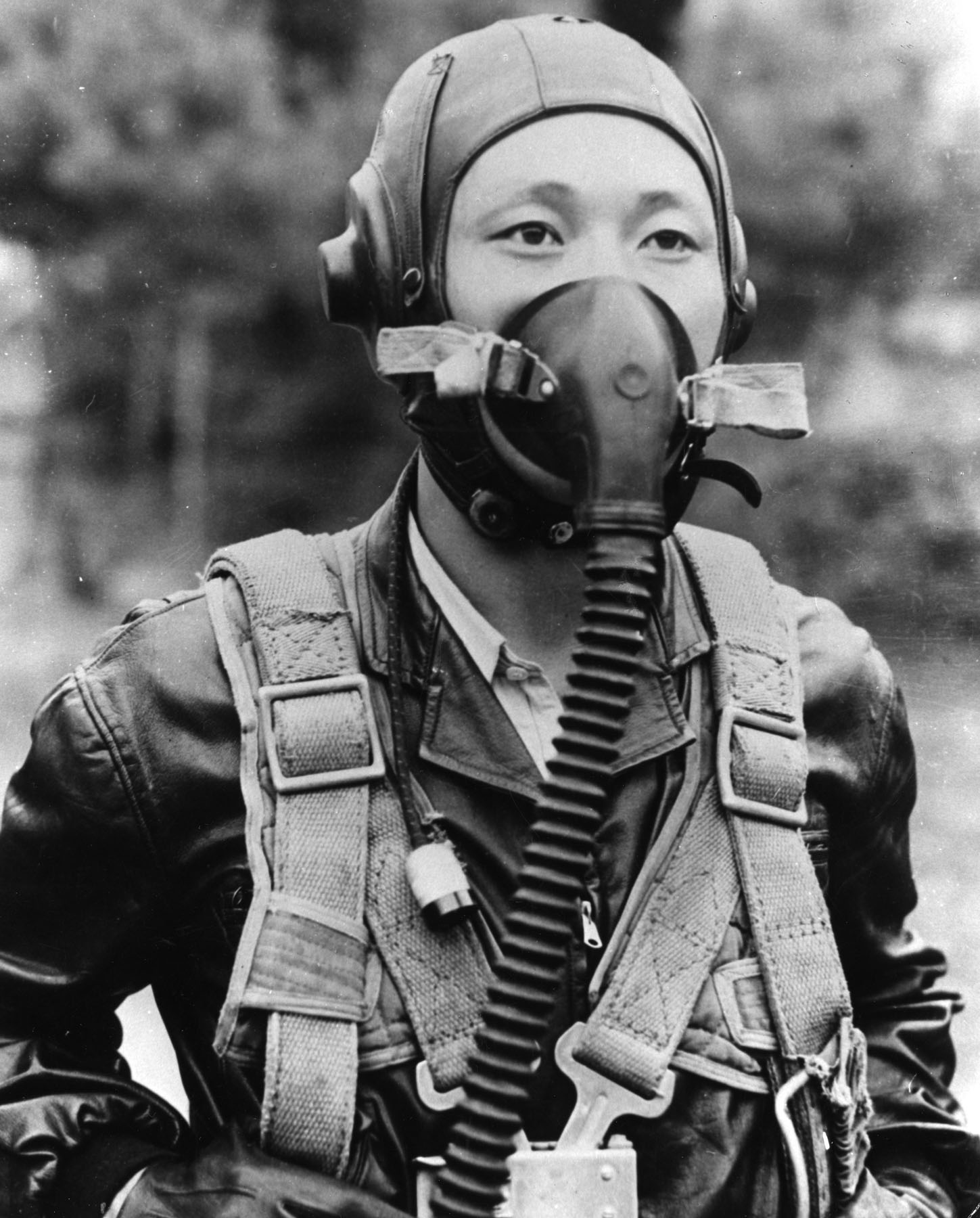 MiG-15 pilot Lt No Kum-Sok, pictured in 1953 wearing typical communist flight clothing. MiG-15 pilots did not wear g-suits or hard-shell helmets.